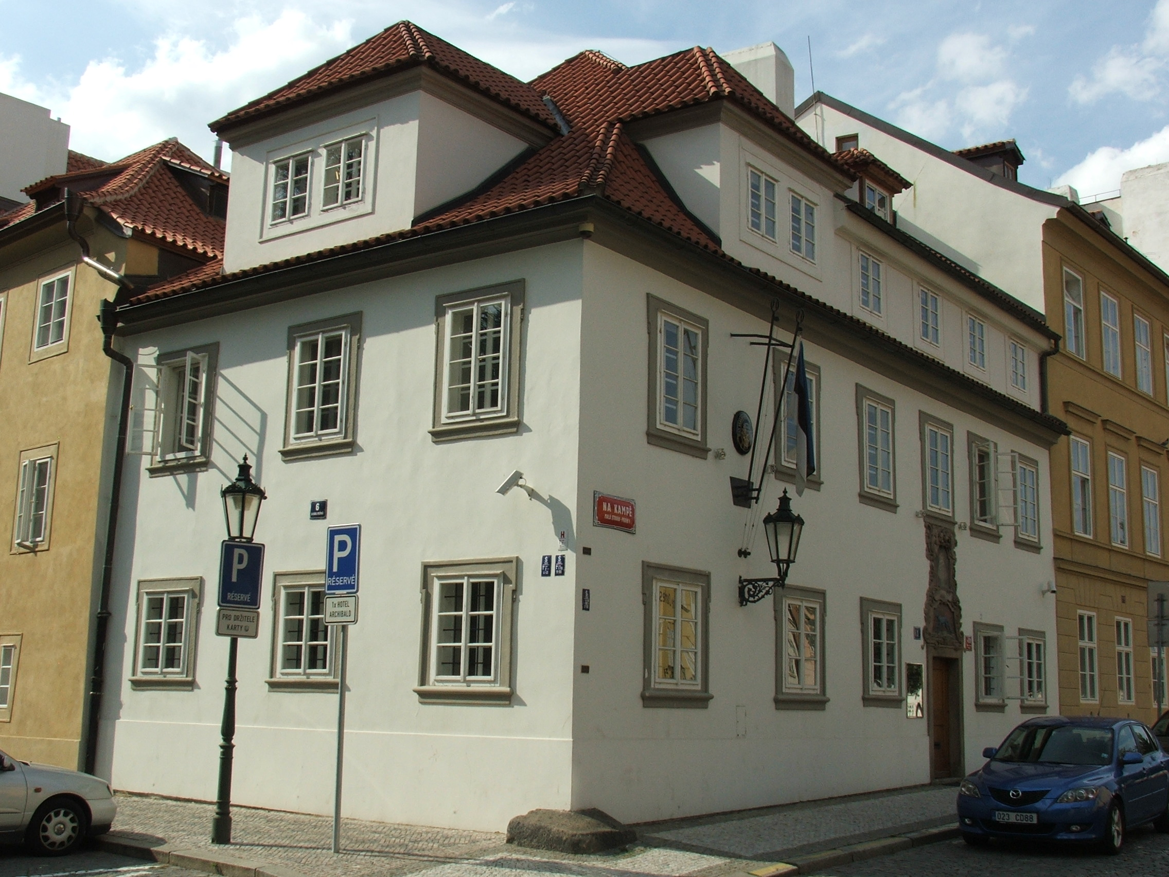 Embassy of Estonia in Prague - Malá Strana, Czechia - House At the Blue Fox